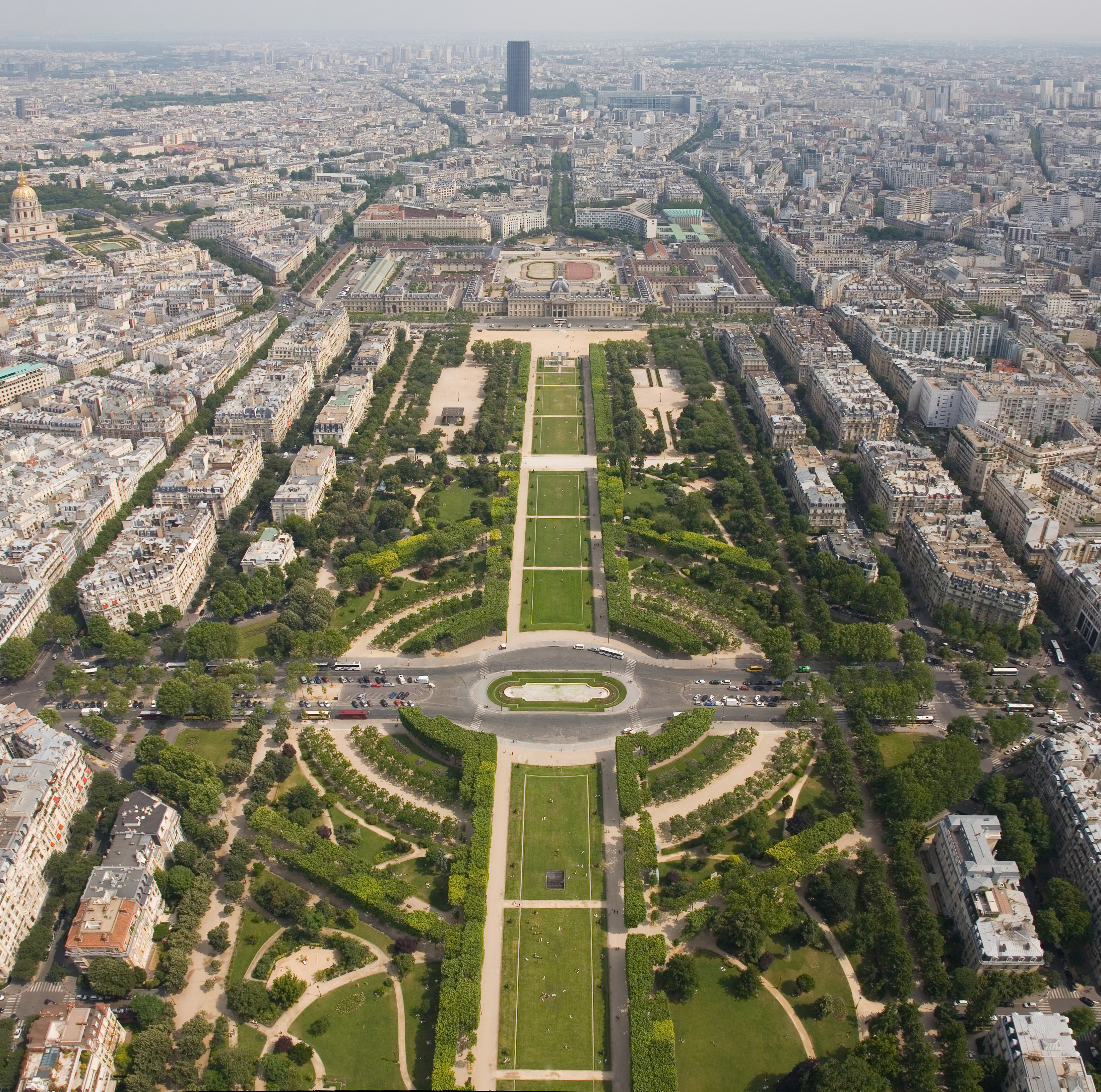 A two segment panorama of Champ de Mars from the Eiffel Tower. In the distance is Tour Montparnasse and the dome on the left is Les Invalides. This photo taken with a Canon 5D and 24-105mm f/4L IS.